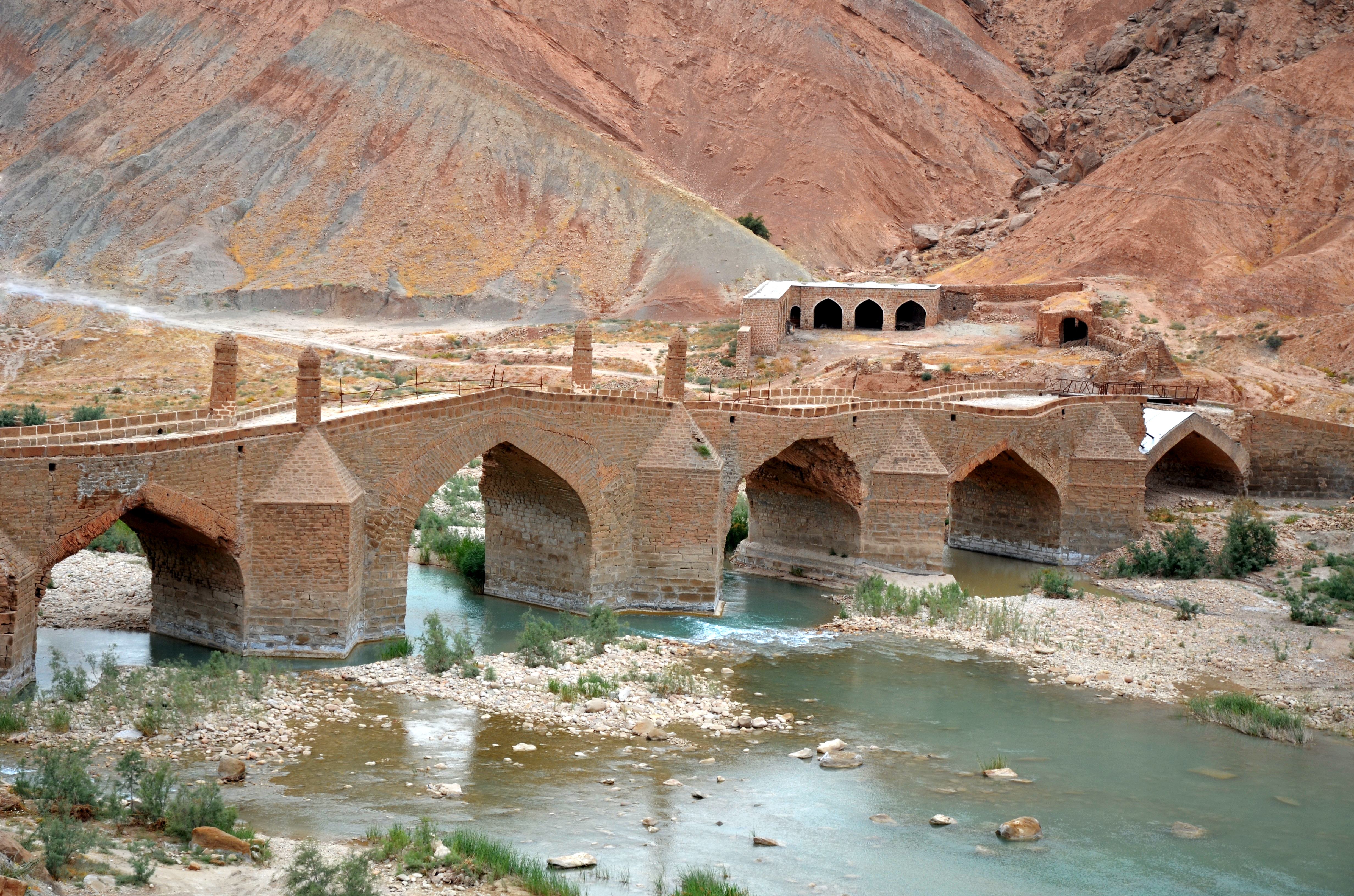 Borazjan - Moshir Bridge (Dalaki), Borazjan, Bushehr, Iran